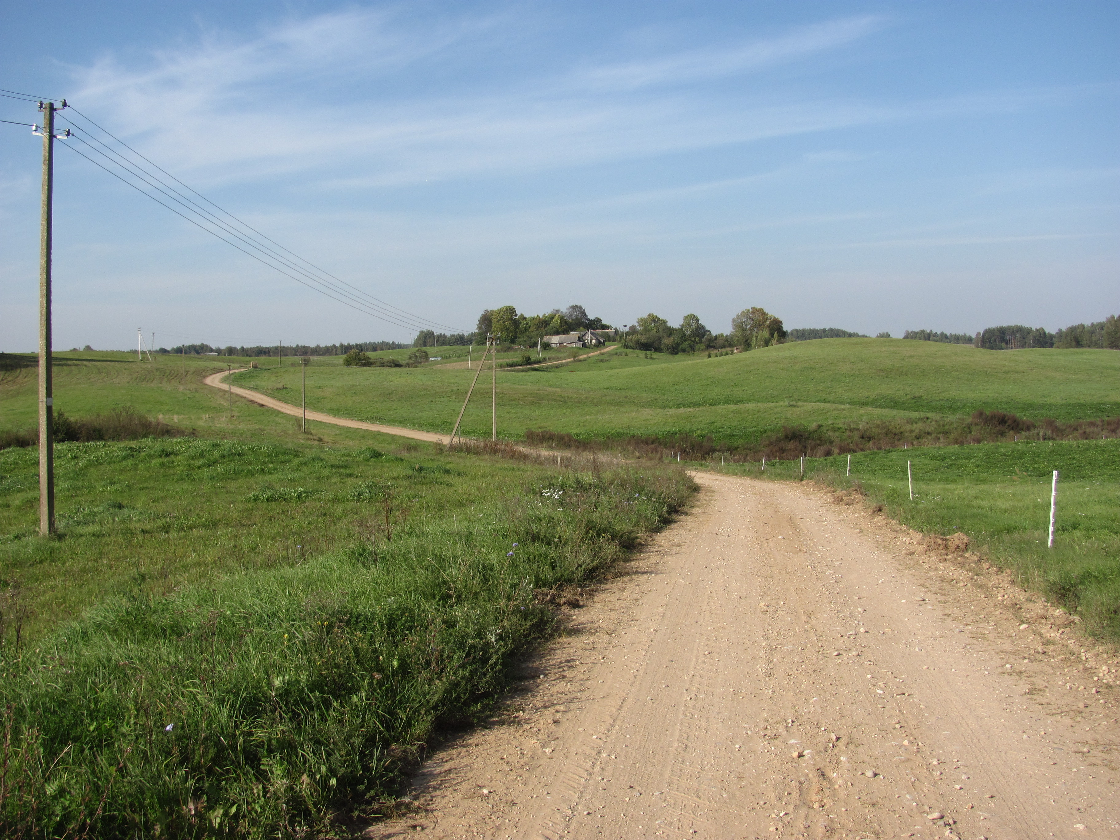 Turmanto sen., Lithuania